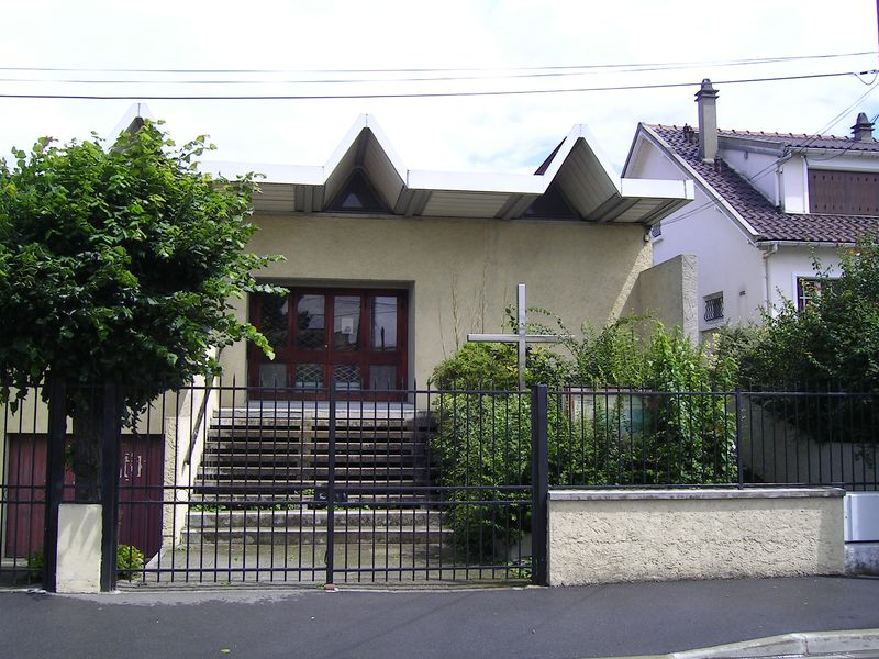 temple protestant Photo personnelle (own work) de Marianna